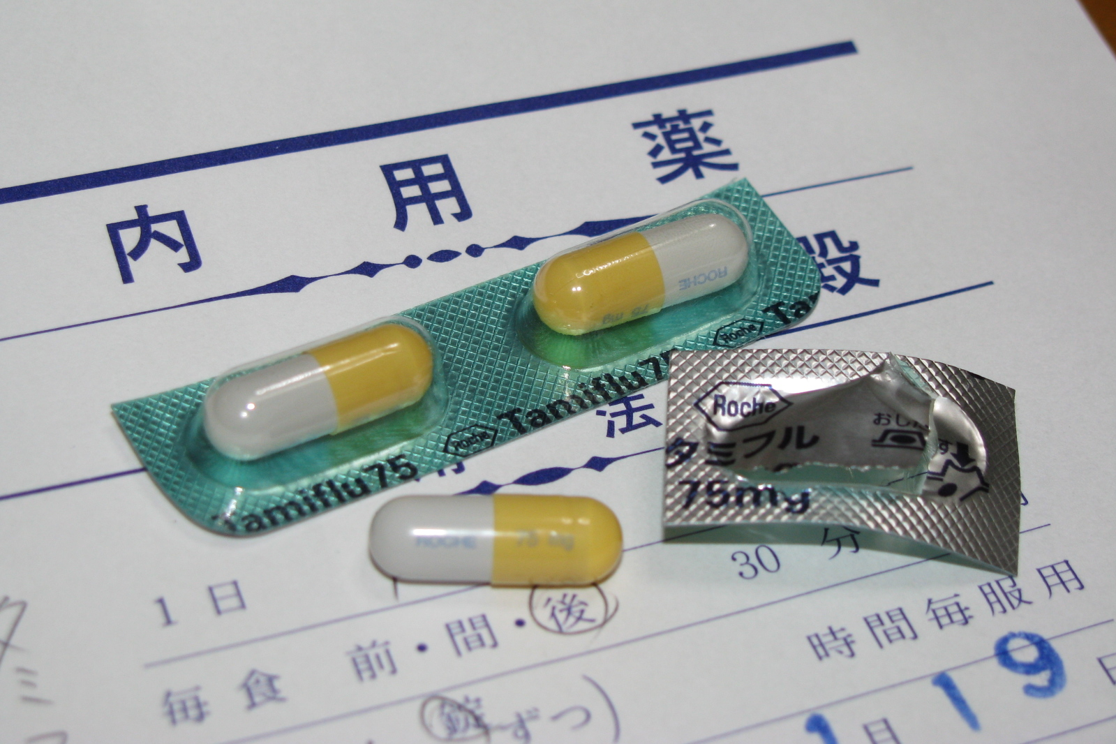 Oseltamivir phosphate capsules Tamiflu Capsules 75 mg. Producted by F. Hoffmann-La Roche, Ltd. Sales licensee in Japan by Chugai Pharmaceutical Co., Ltd.